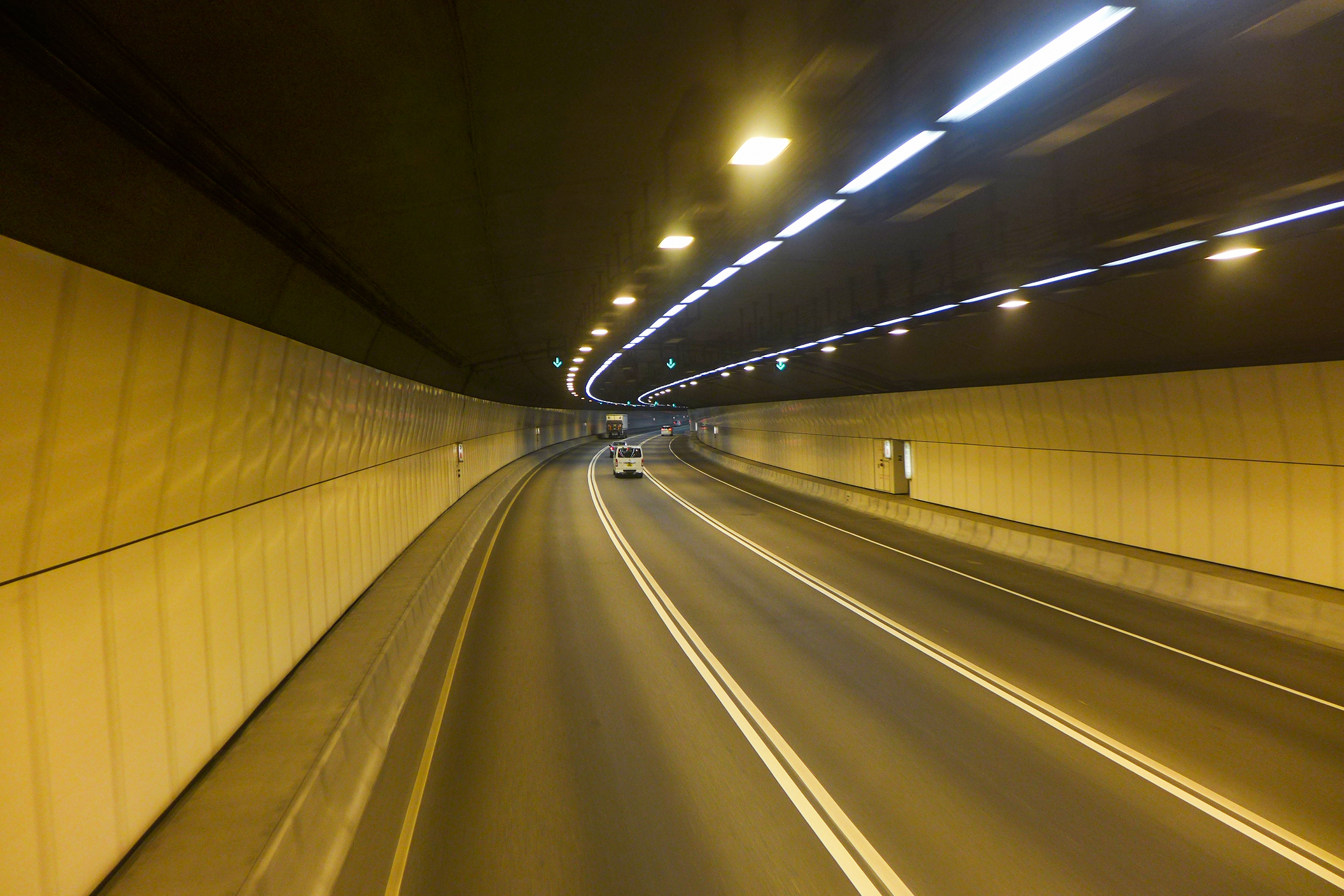 Eagle's Nest Tunnel inside